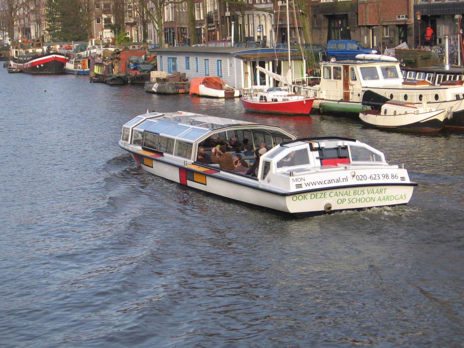 rondvaartboot / public transport Canal Bus, Amsterdam